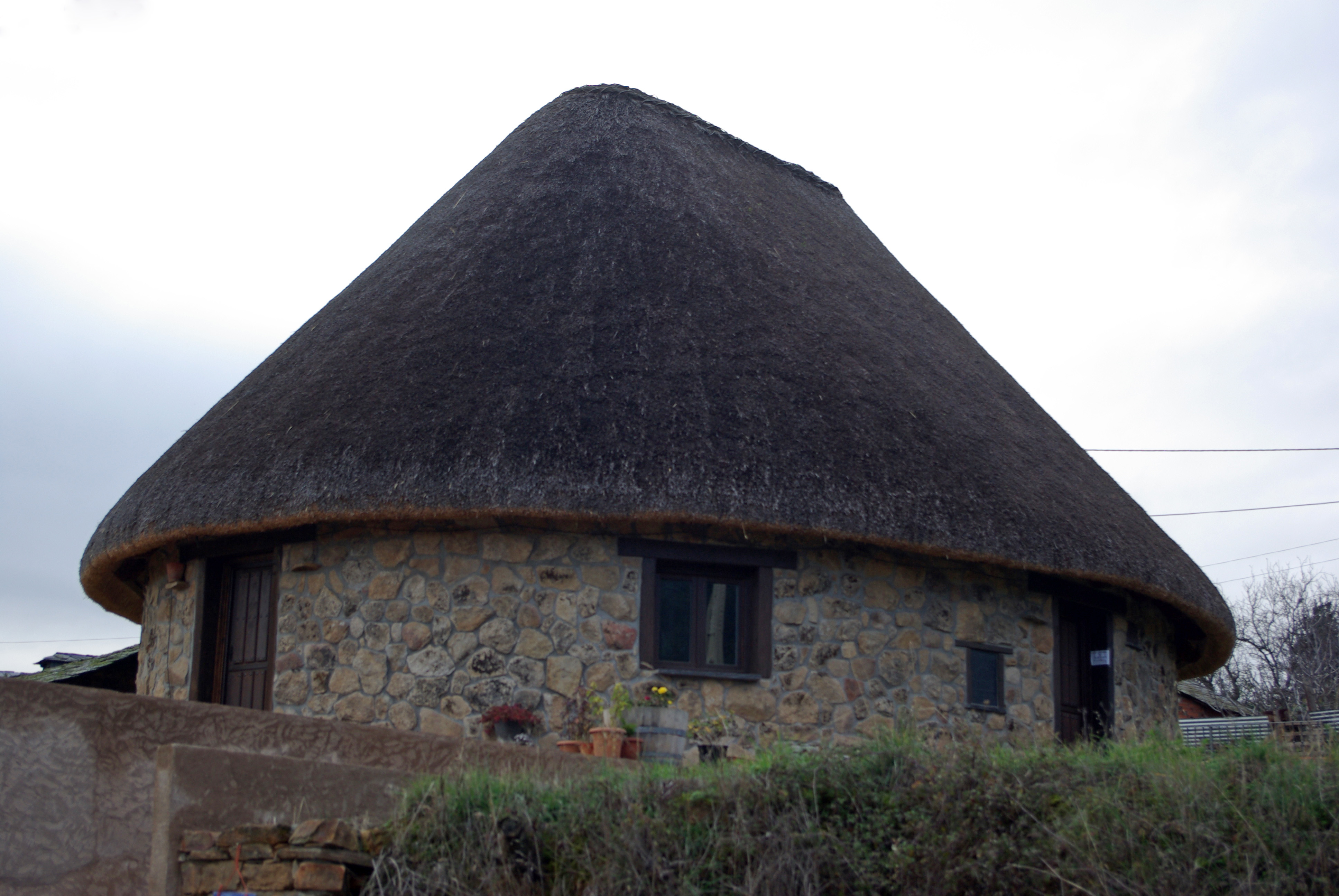 Palloza in Canedo, (Arganza, León, Spain)